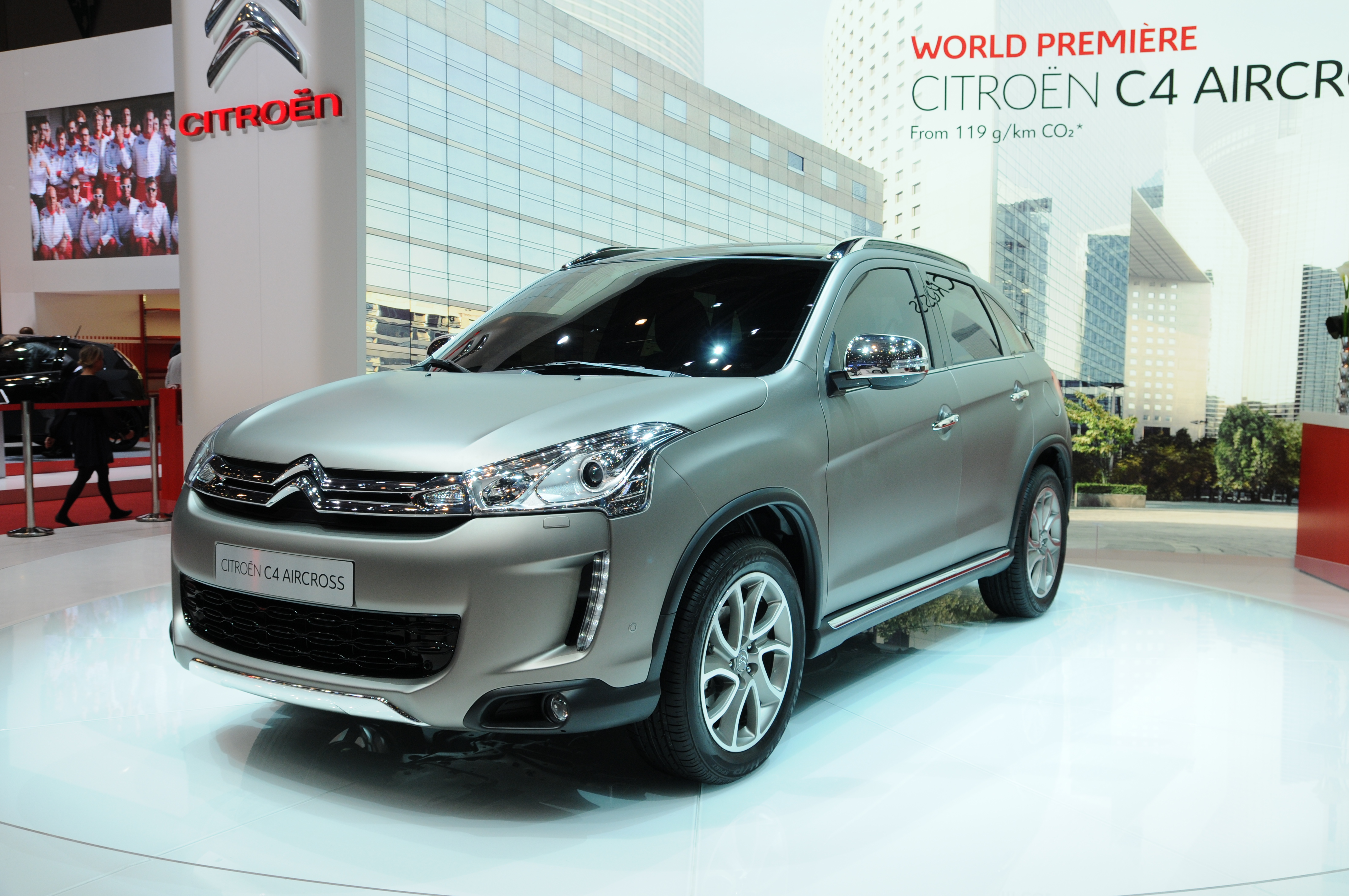 Geneva Motor Show 2012 (photos taken on the second press day)